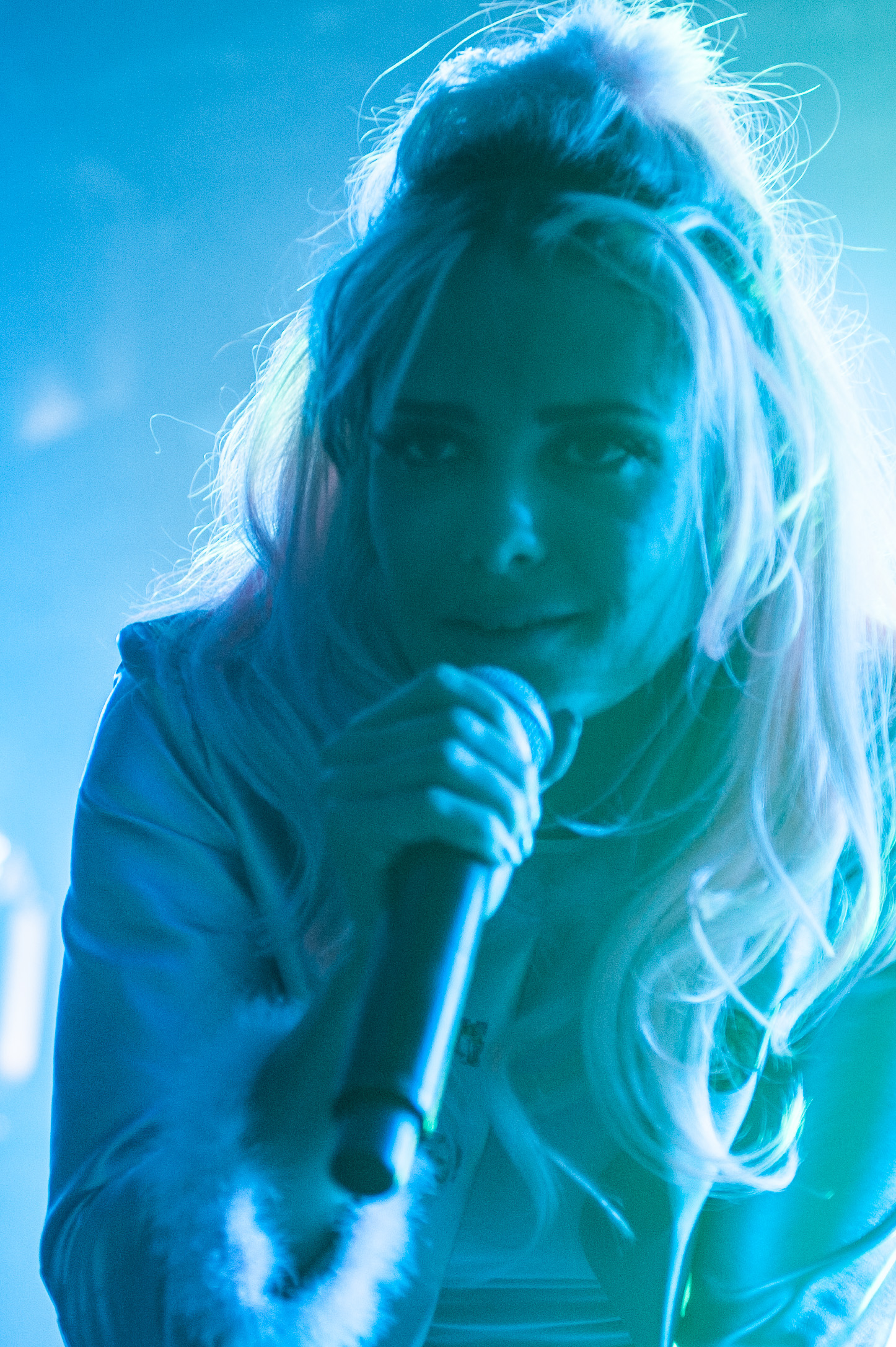 Fiona FitzPatrick of Rebecca & Fiona at Way Out West festival, Gothenburg, Sweden, 2014